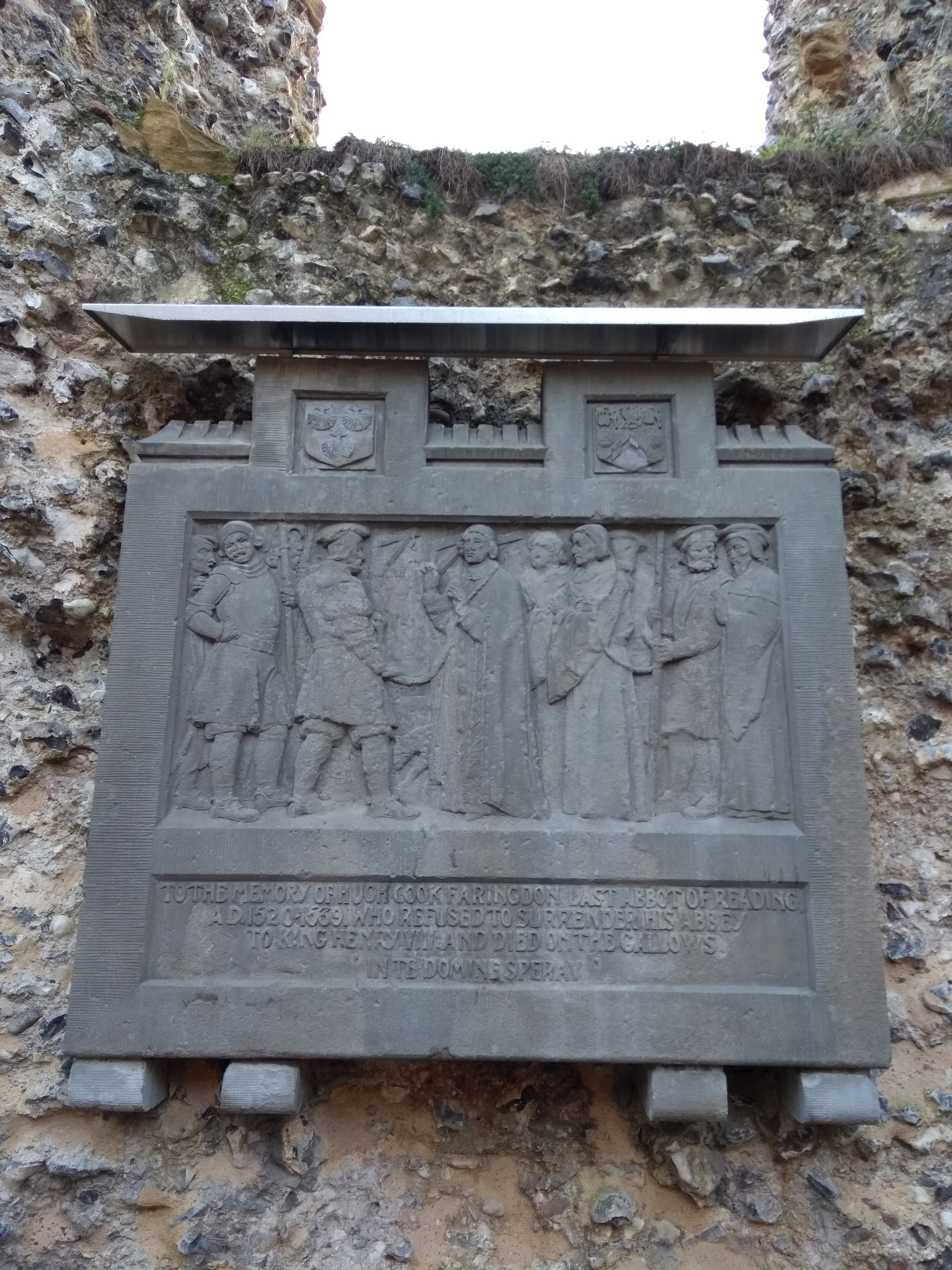 Shows martyrdom of last abbot.